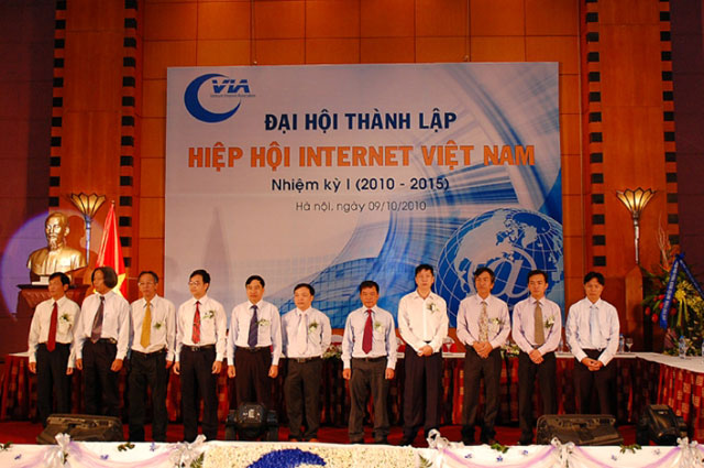 Đại hội thành lập Hiệp hội Internet Việt Nam VIA